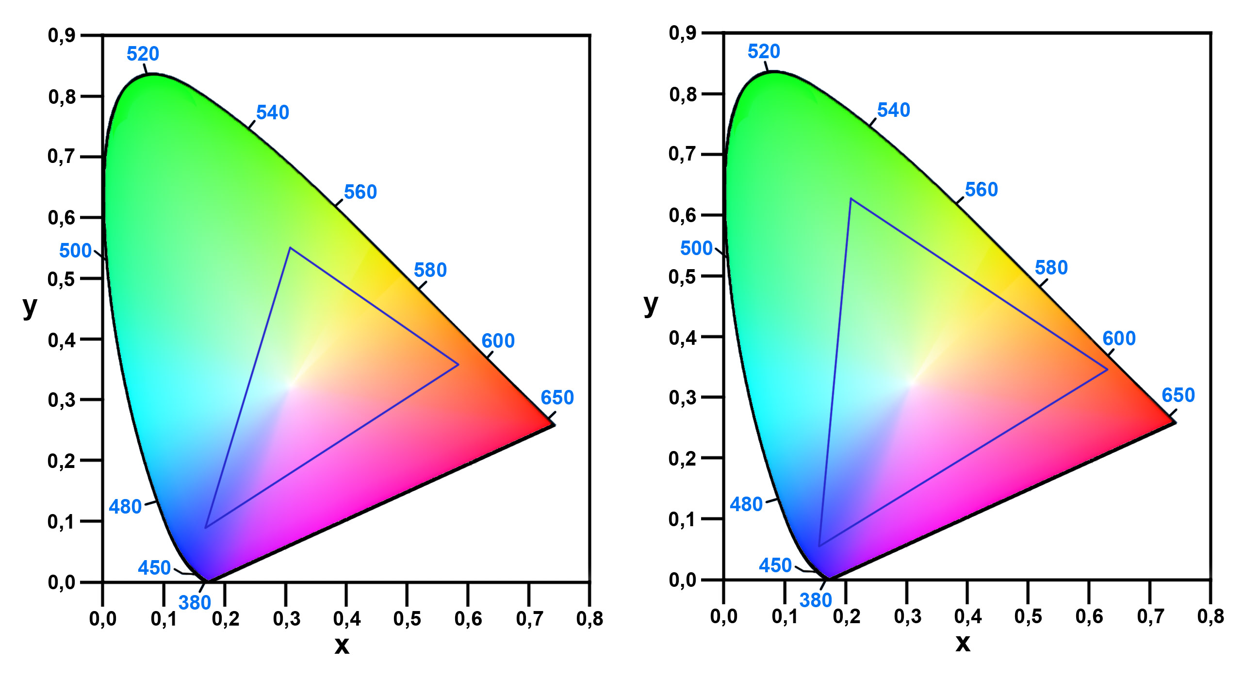 Left: CIE 1931 Chromaticity Diagram and a triangle showing the chromaticity of colors (gamut) that RGB phosphors of a cathode-ray tubes TV screen can produce (by additive mixing). Right: CIE 1931 Chromaticity Diagram and a triangle showing the chromaticity of colors (gamut) that backlighted RGB LCDs of a display can produce (by additive mixing).